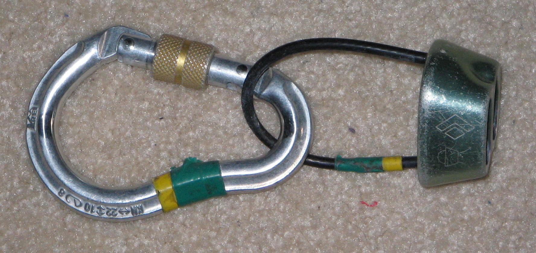 An ATC on a locking carabiner. Created by Stewart Adcock, 27th September 2004.